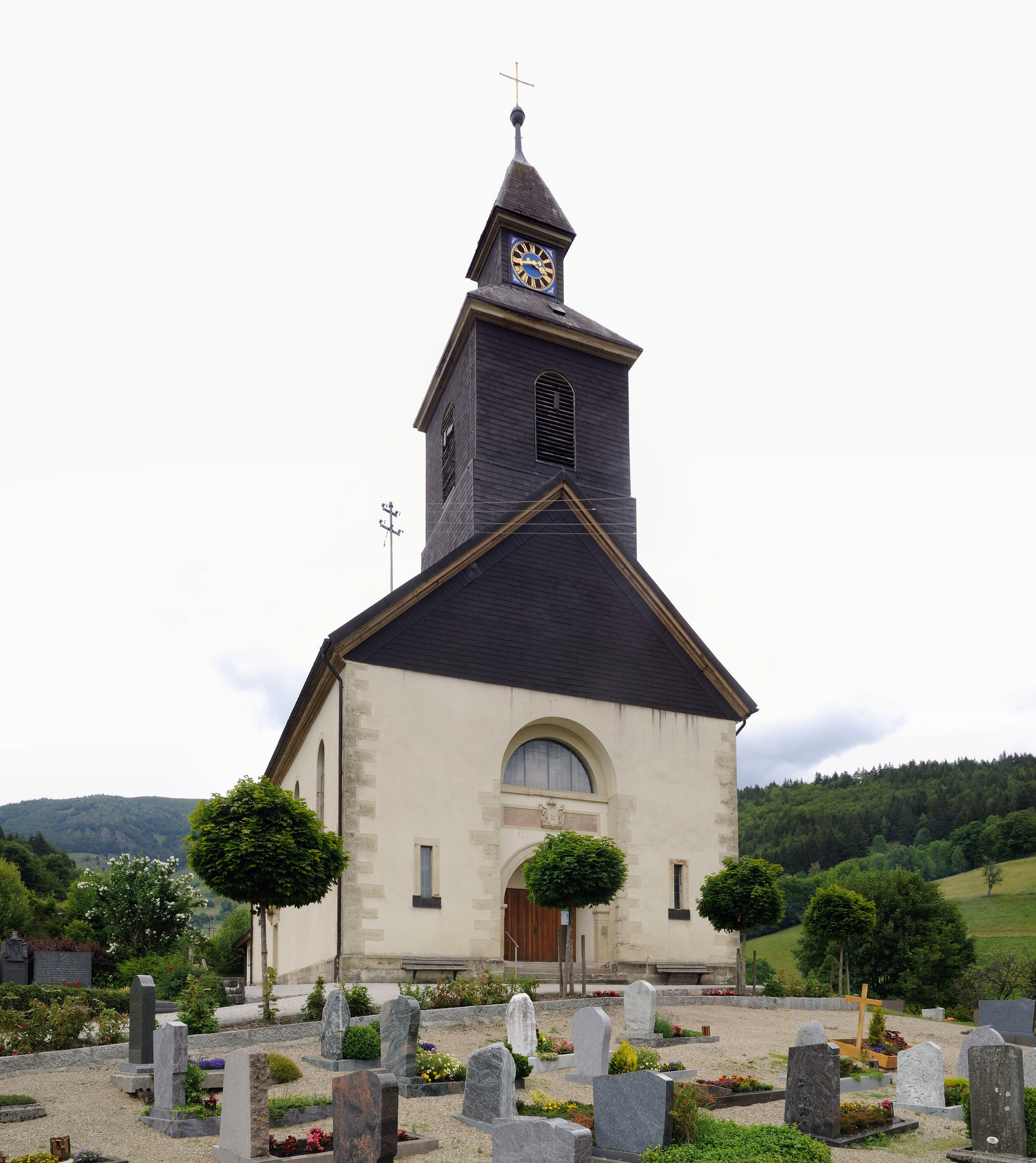 Neuenweg: Protestant Church